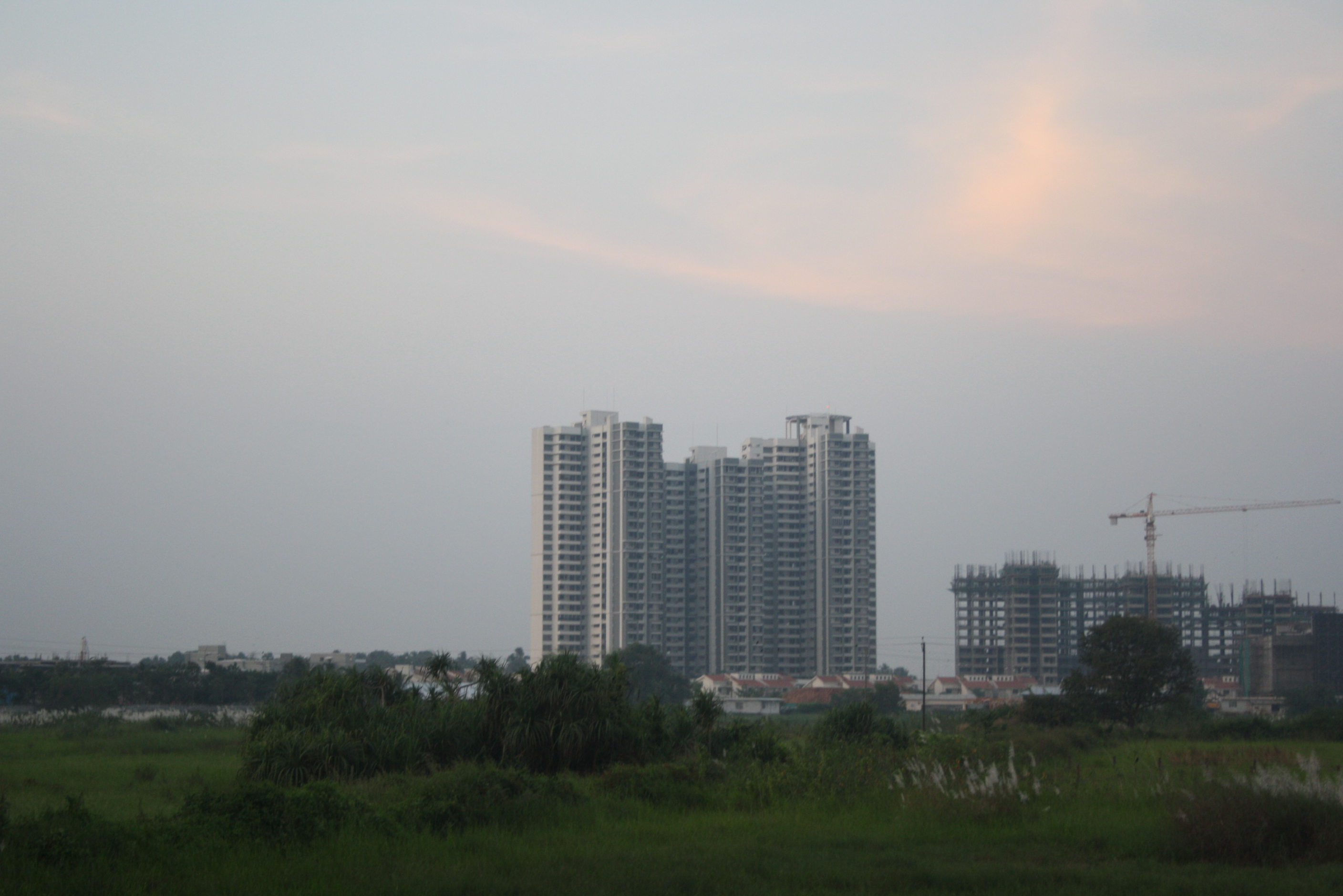 A view of Sobha Topaz, a super luxury residential skyscraper situated in Sobha City in Thrissur City of Kerala State. It is the tallest residential skyscraper in Thrissur City (97.90 metres with Helipad) and the second tallest residential building in Kerala State.